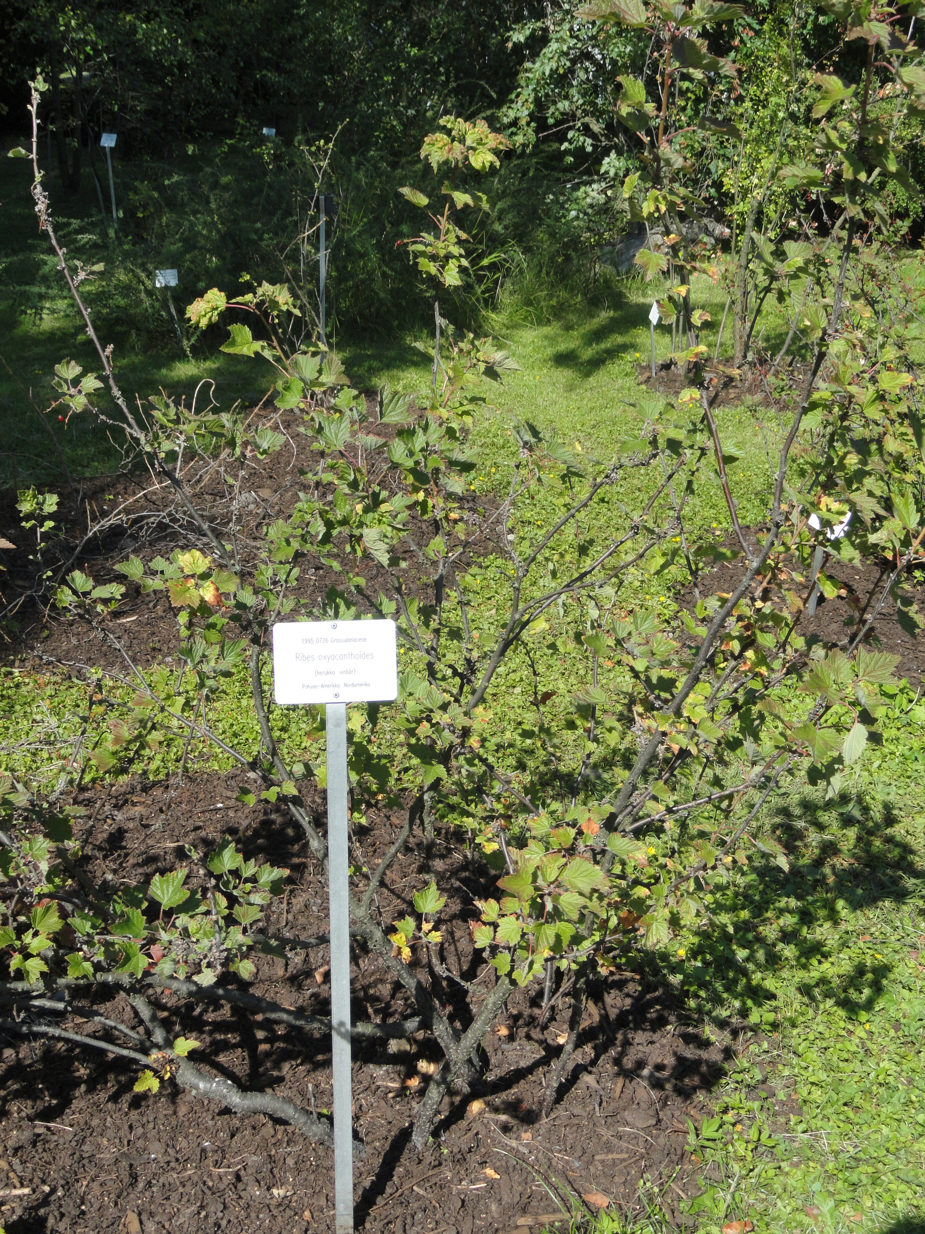 Botanical specimen. The University of Helsinki Botanical Garden at Kaisaniemi